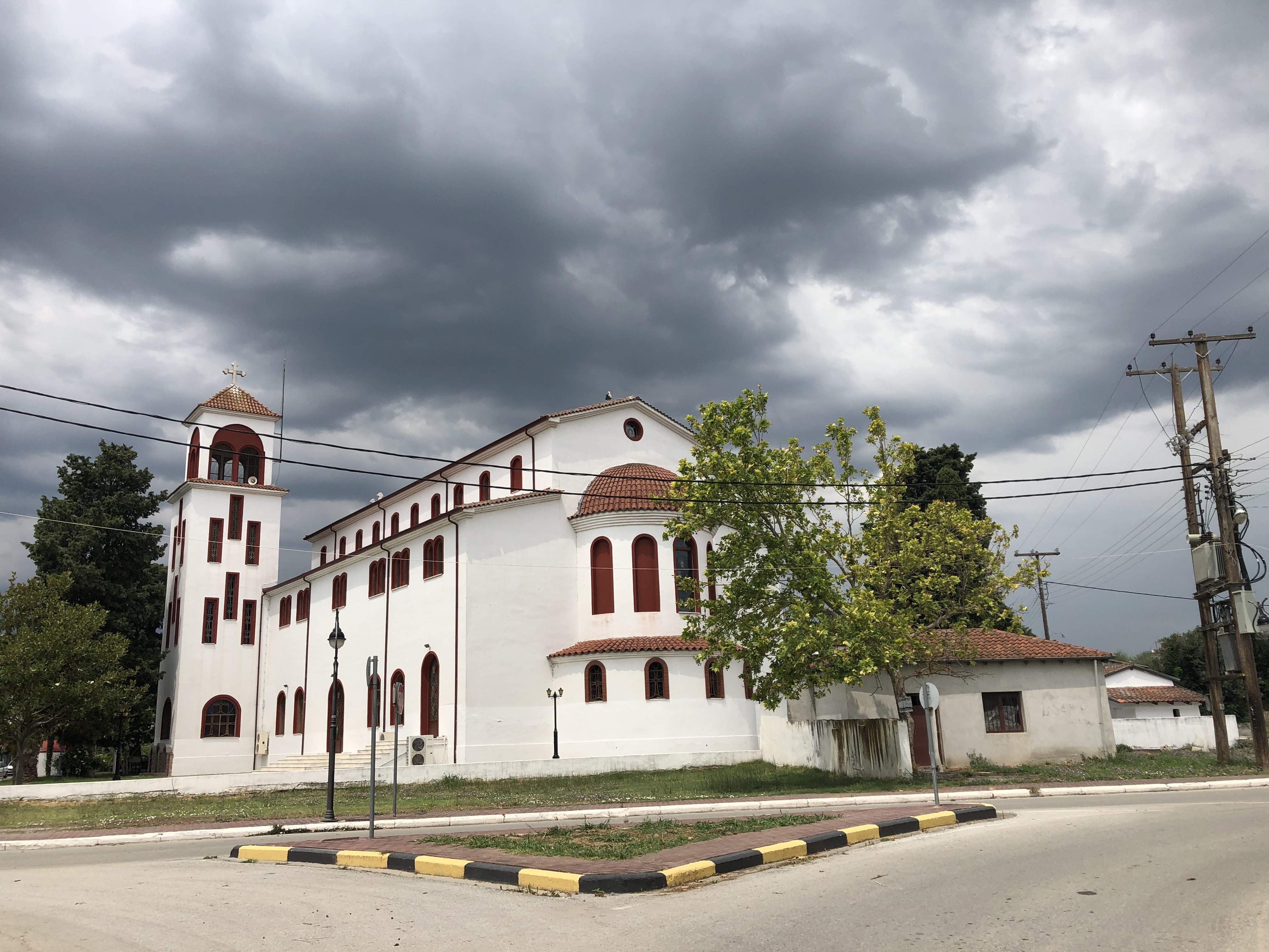 Church St Apostoli Korinos Greece